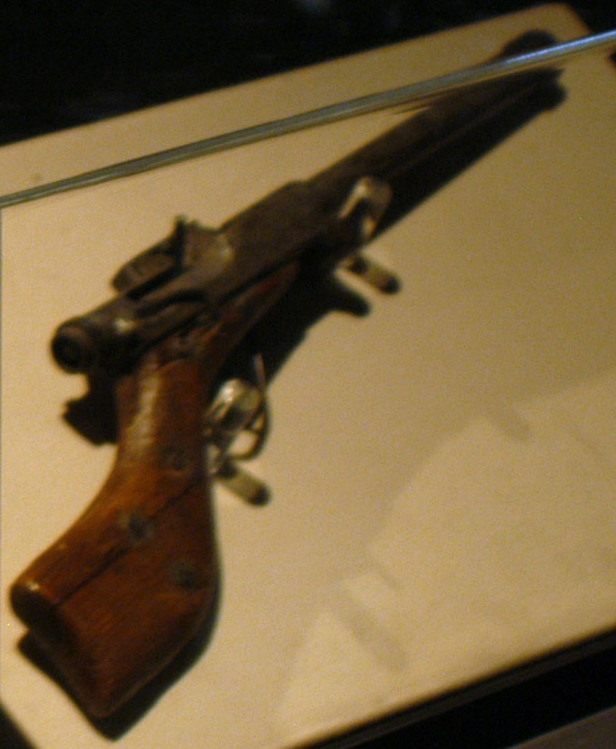 DAYTON, Ohio - Home-made, 12-gauge shotgun used by Bosniac fighters on display in the Cold War Gallery at the National Museum of the U.S. Air Force.